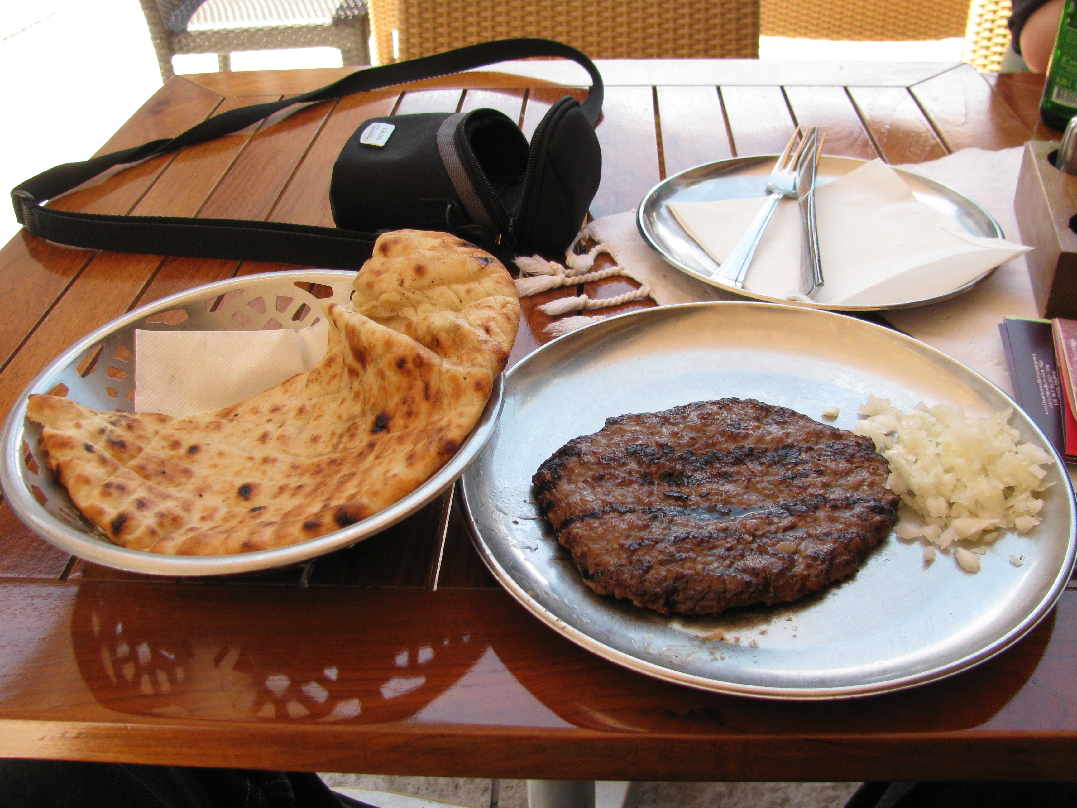 Pljeskavica from Sarajevo, Bosnia